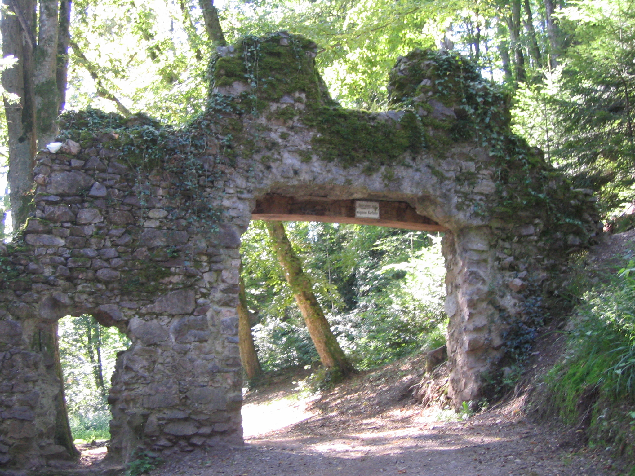 Ruins of castle Wiesneck at Buchenbach, Black Forest